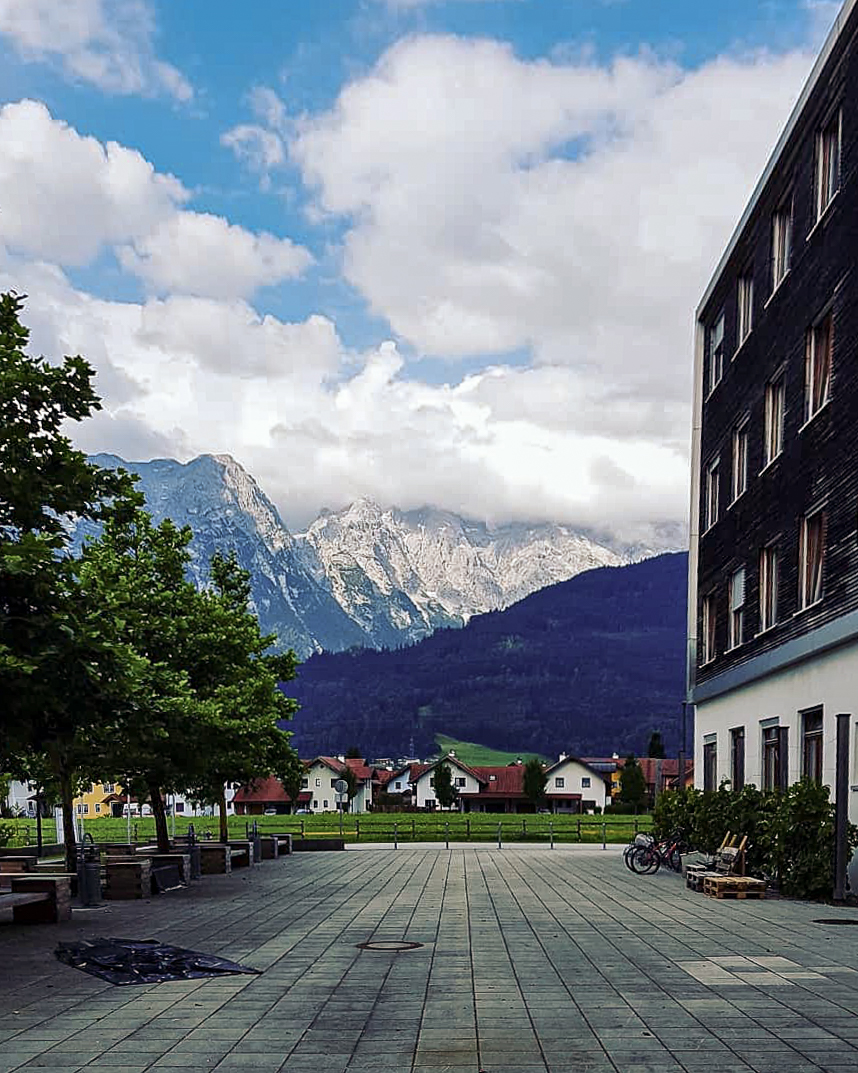 Campus Kuchl, View of the Tennengebirge